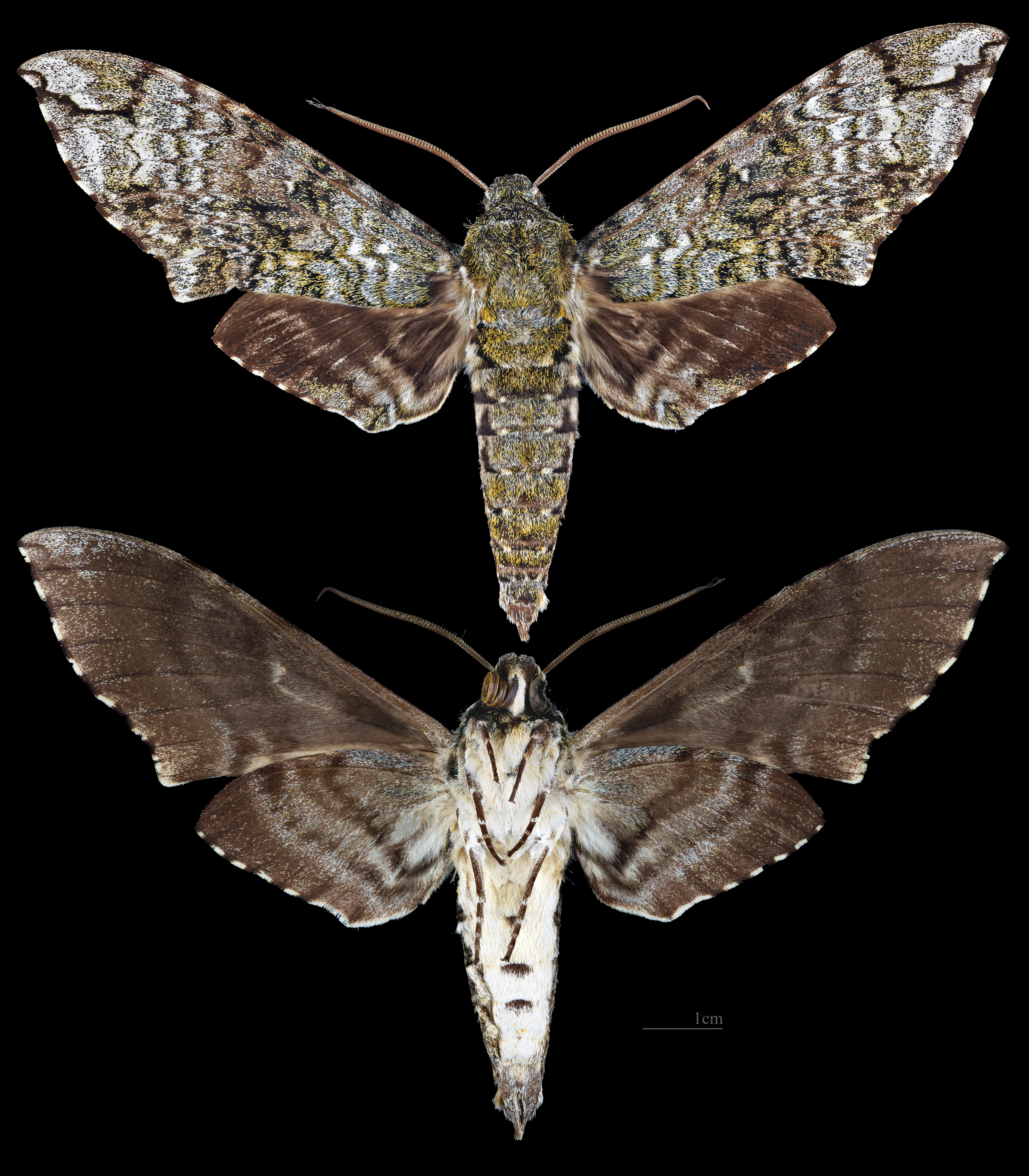 Manduca lichenea - Two views of same specimen Collection of the Mathematician Laurent Schwartz